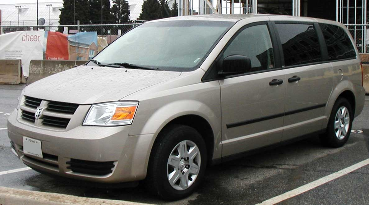 2008-2009 Dodge Grand Caravan photographed in College Park, Maryland, USA.